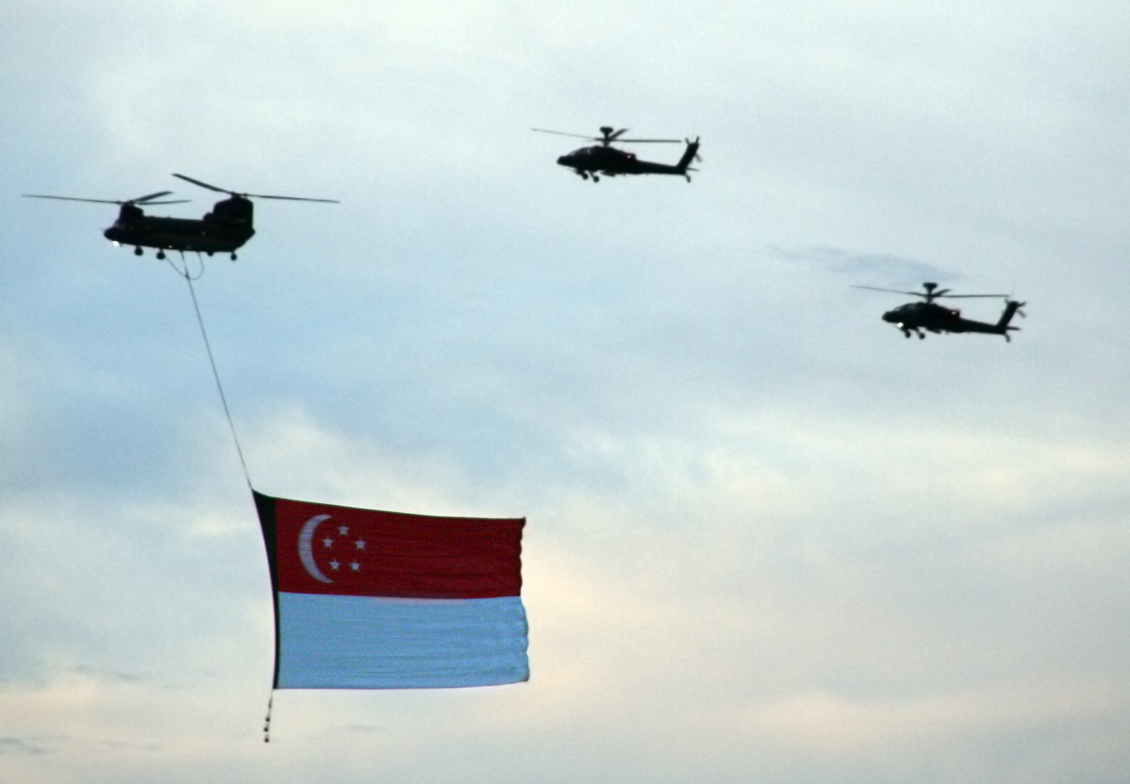 A giant Singapore national flag suspended from a Republic of Singapore Air Force CH-47 Chinook helicopter and accompanied by two Boeing AH-64D Apaches, photographed by Stephen Au in Singapore on 29 July 2006 during a National Day Parade rehearsal. The photograph was edited slightly by Jacklee to brighten the image and improve its colour.